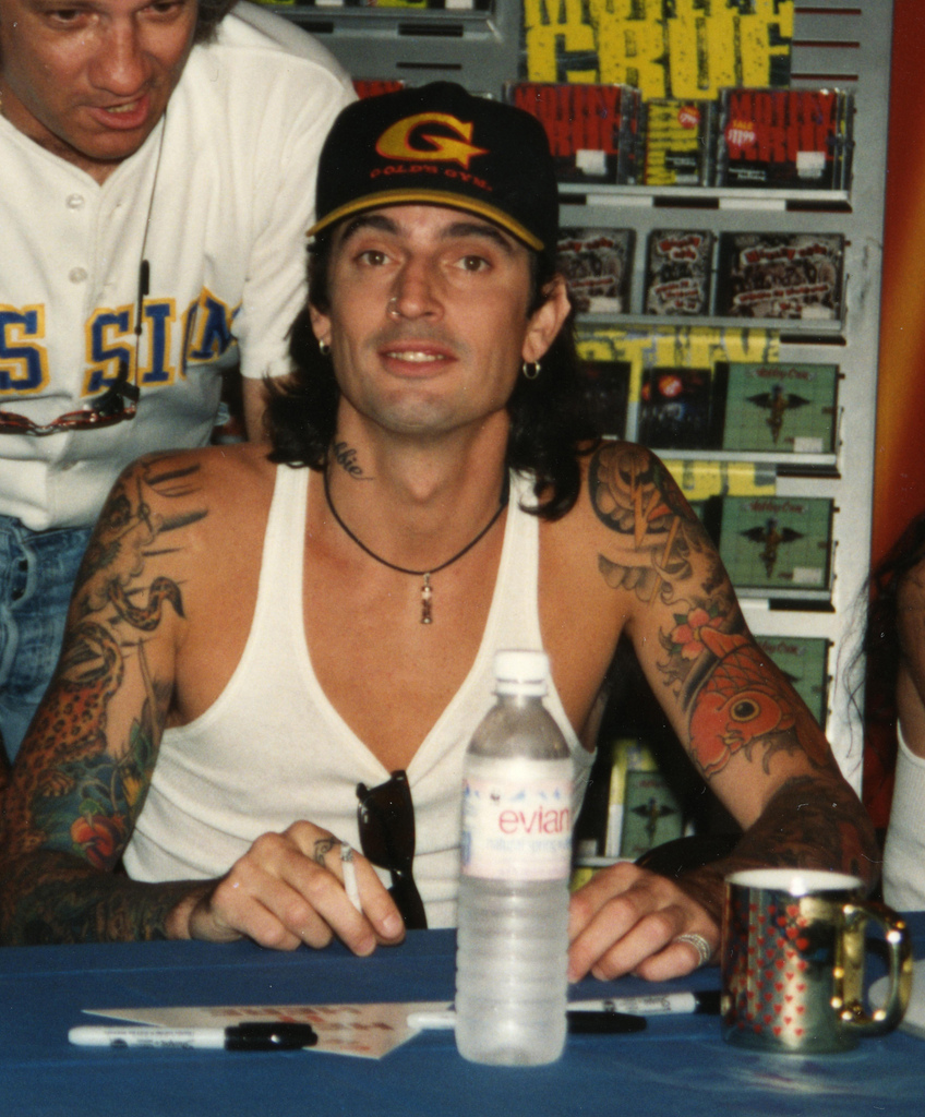 Tommy Lee. Houston autograph signing.